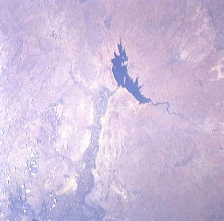 Lake Delcommune, now called Lake Nzilo, as of September 1994 (Democratic Republic of the Congo)